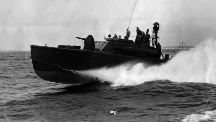 U.S. Navy PT-259 underway off Naval Air Station Midway.